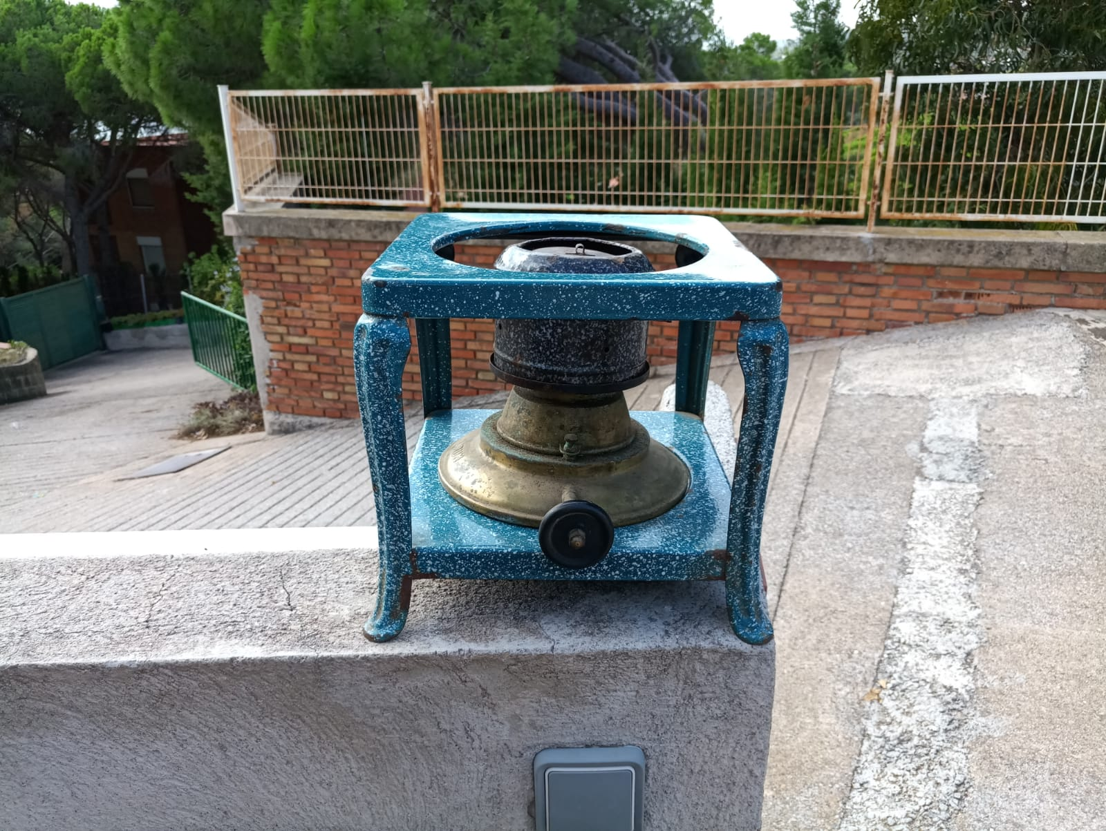 A non pressurized kerosene stove of circular-wick type used in Spain in the 1950 decade